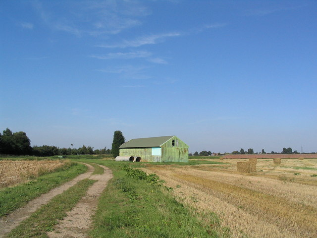 Marsh Farm, Surfleet Seas End. Only this colourful corrugated steel barn remains